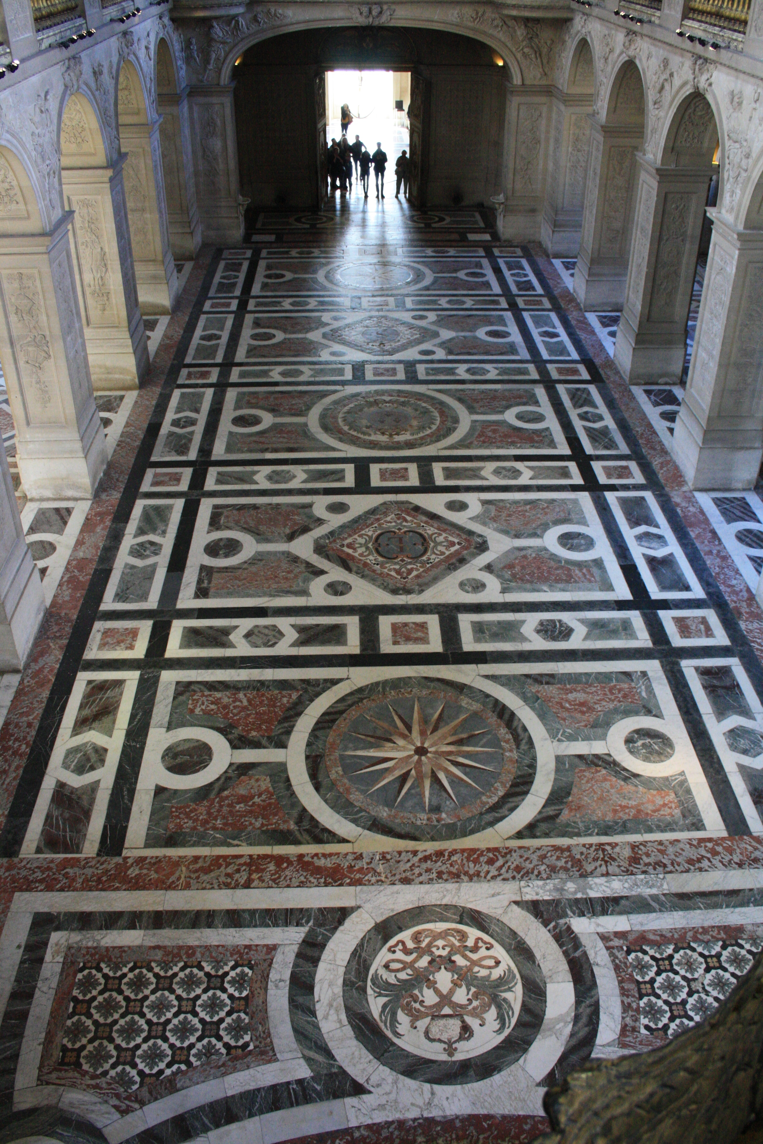 Chapelle royale (royal chapel) of the Palace of Versailles in Versailles, France